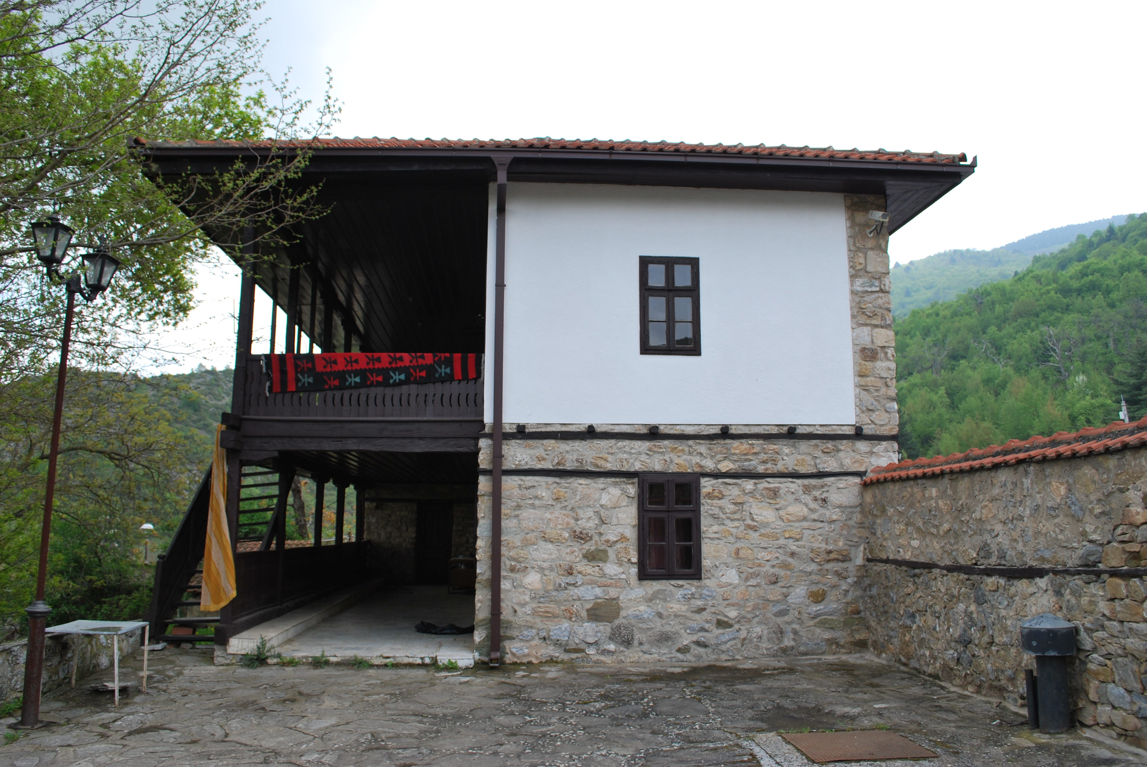 Gorno Nerezi Monastery, Macedonia